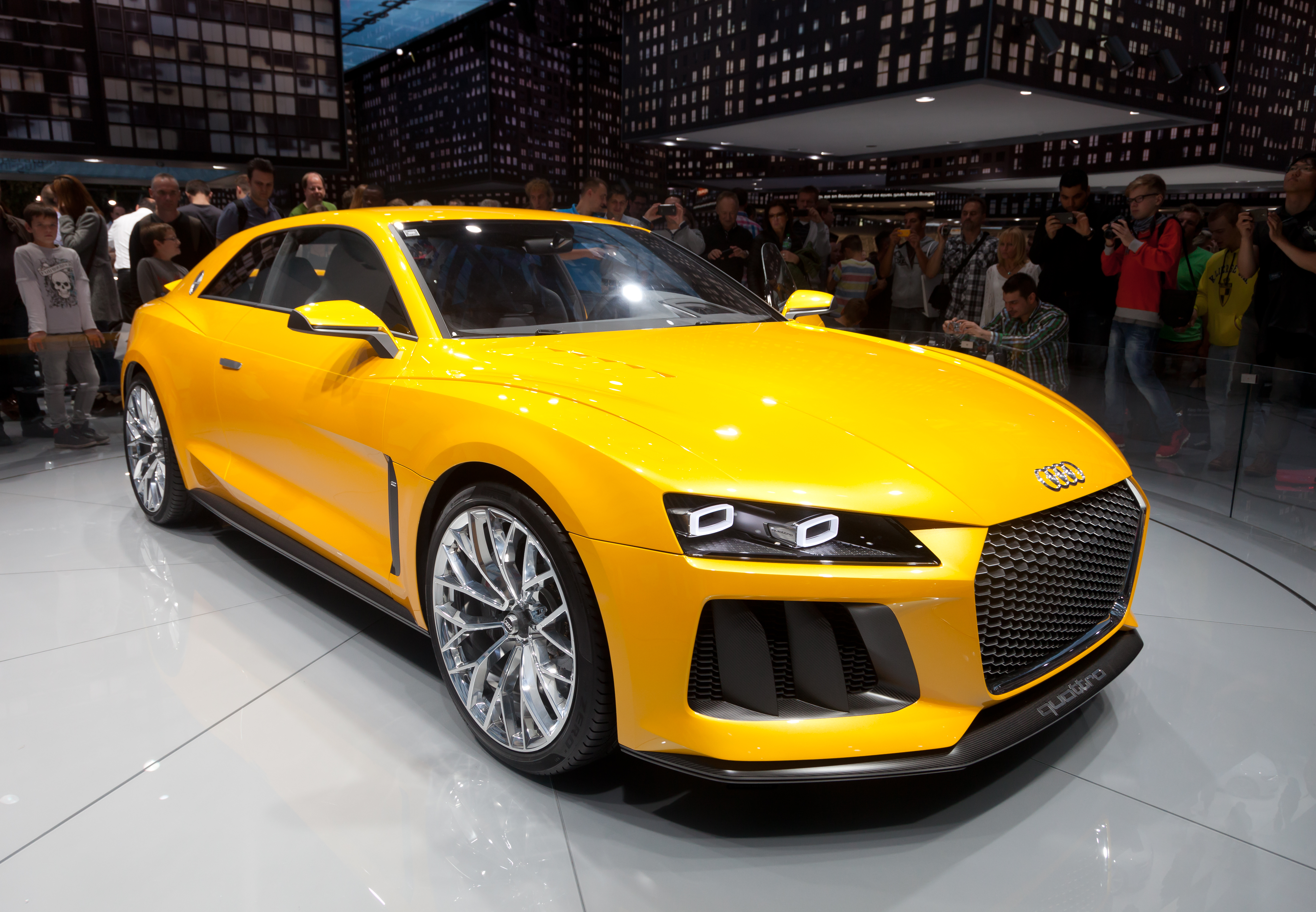 Audi Sport quattro concept at Frankfurt Motor Show 2013 in Frankfurt, Germany